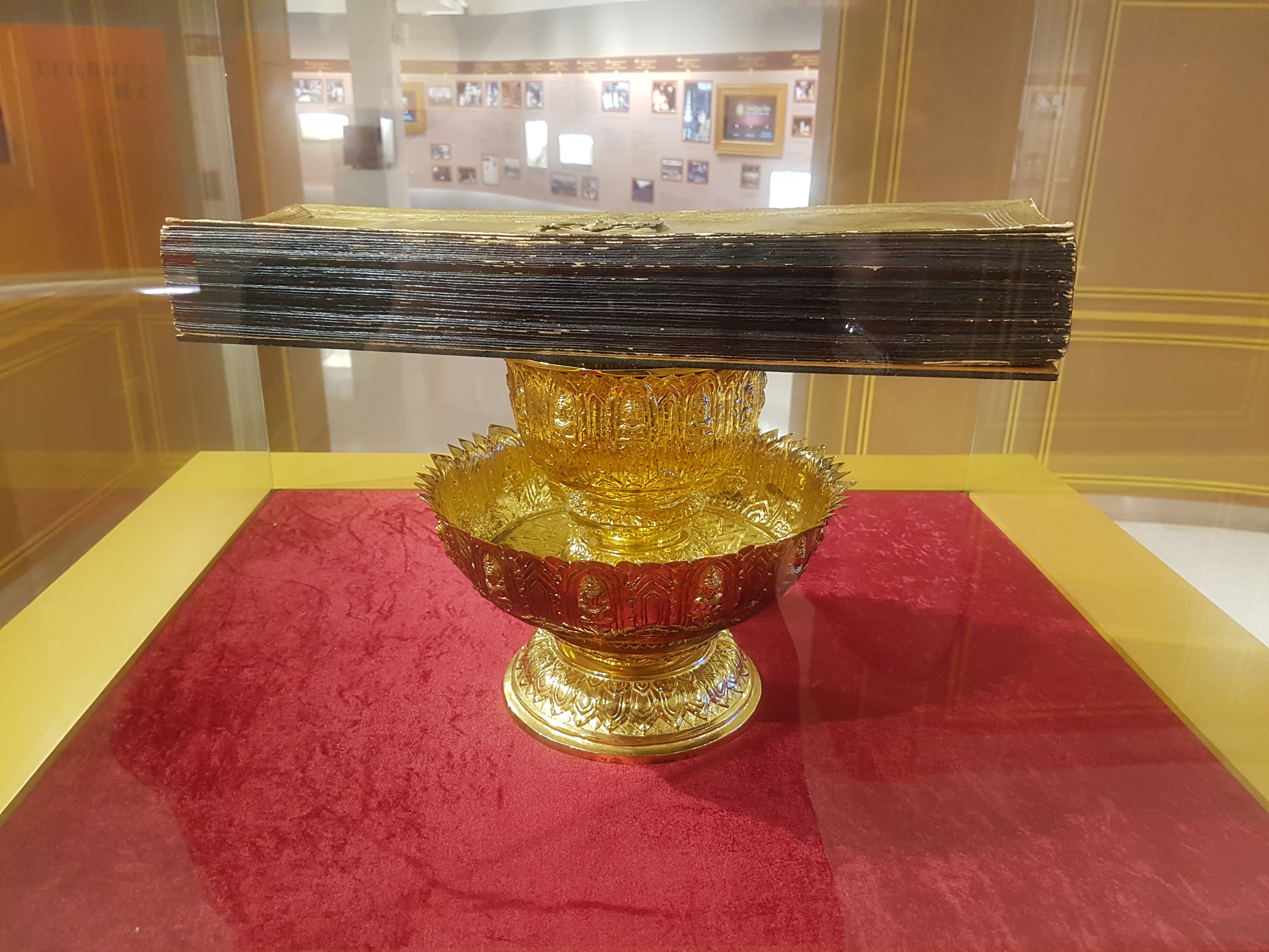 The Constitution of the Kingdom of Siam 1932, the first constitution of Thailand, was made in three copies handwritten on traditional folding books. This is one of those original copies, displayed at the Thai Parliament Museum housed by the Parliament House of Thailand in Bangkok. The other two copies are kept at the Cabinet Secretariat and the Office of His Majesty's Principal Private Secretary.